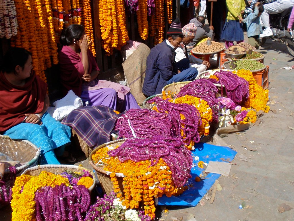 Dewali Festival, Kathmandu, Nepal